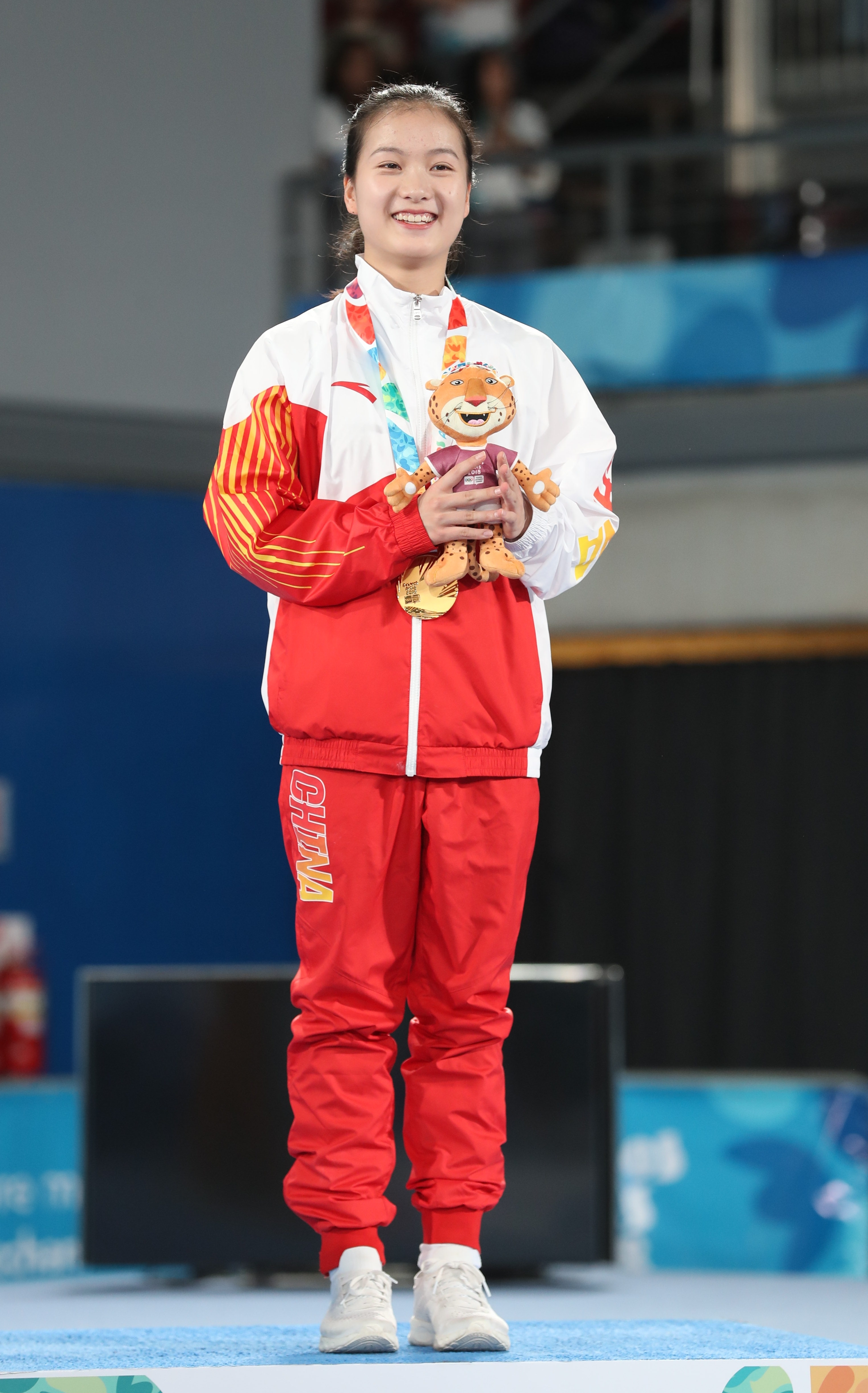 Victory ceremony for the girls' trampoline gymnastics at the 2018 Summer Youth Olympics in Buenos Aires on 14 October 2018.